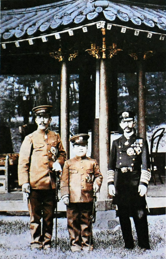 韓国を親善訪問した皇太子嘉仁親王(右端:Crown Prince Yoshihito/Emperor Taishō)。中央は韓国皇太子・李垠(Lee Eun/10 years old)。左端は韓国皇帝・純宗李拓(Lee Cheok, Emperor Sunjong)。